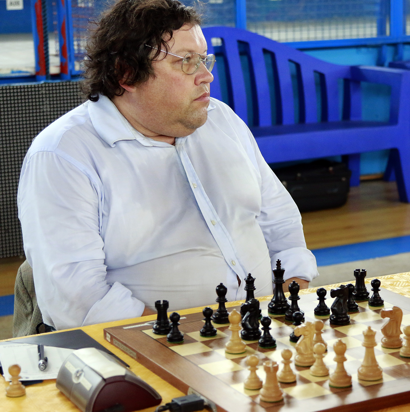 Igor Naumkin, Russian chess Grand Master. Porto San Giorgio (Italy), August 2014. Igor Naumkin, Grande Maestro di scacchi Russo. Porto San Giorgio, agosto 2014.